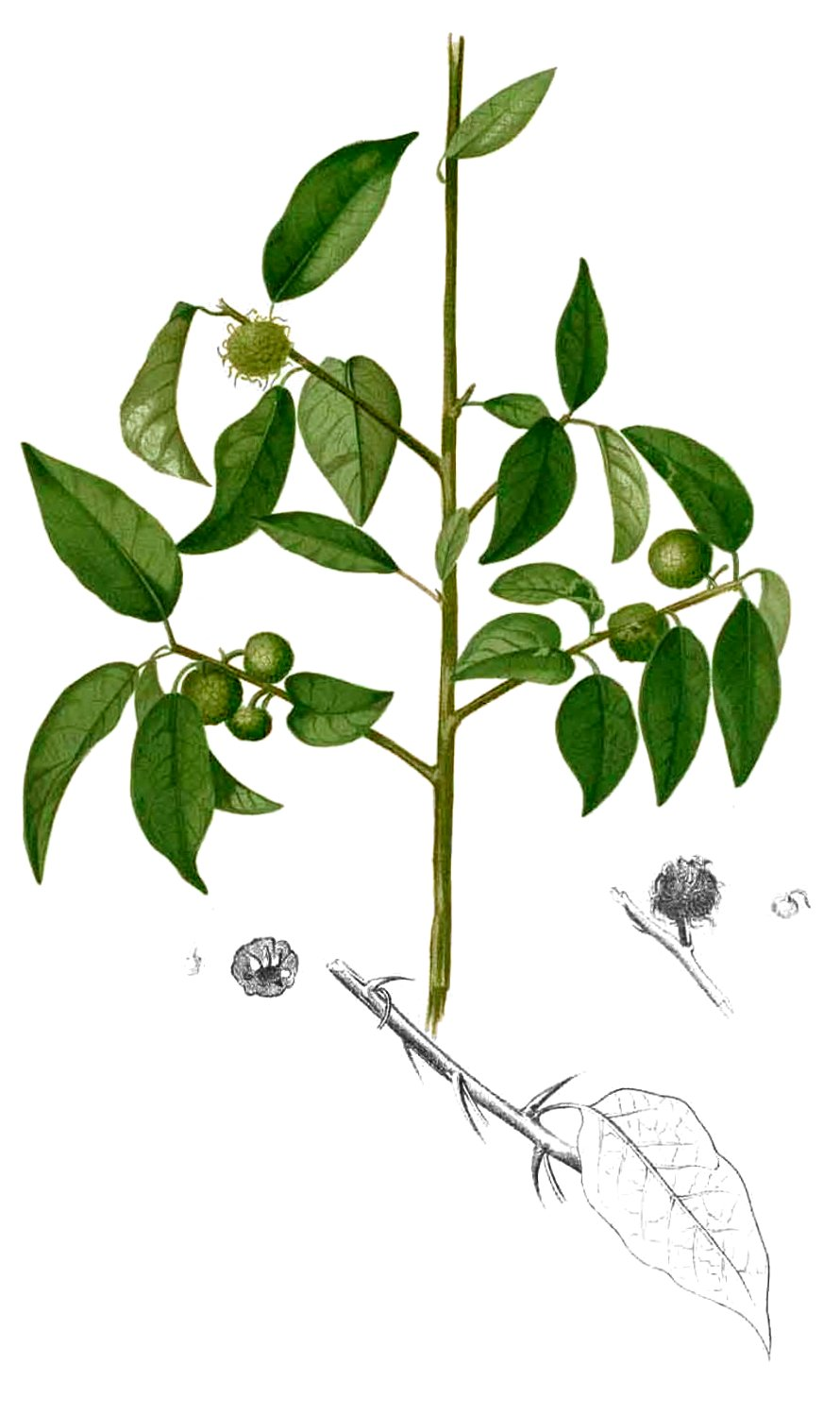 Plate from book